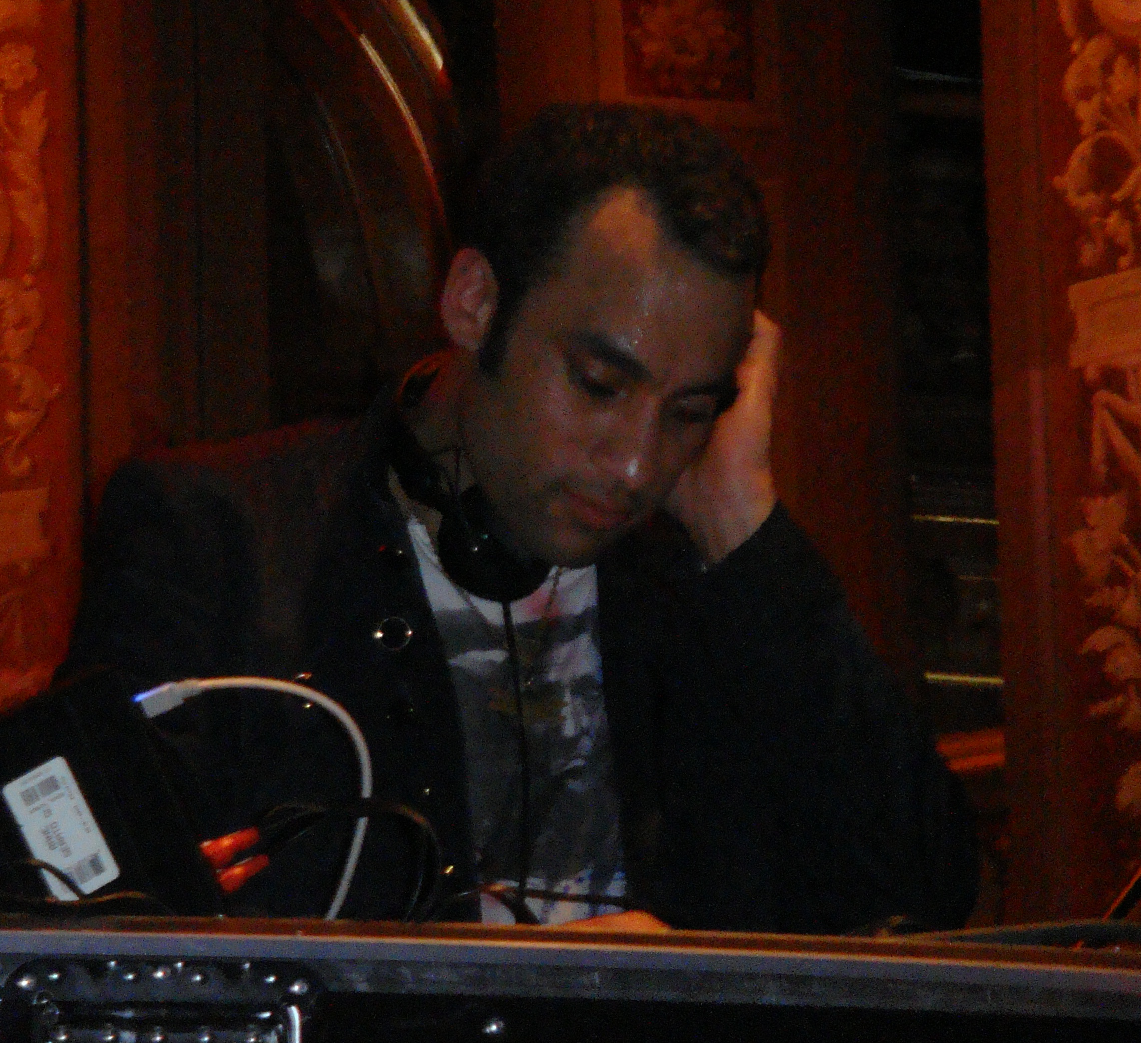 Stephen Simmonds DJ'ing at the Mosquito Room club at Berns Salonger in Stockholm, 28 March, 2010.